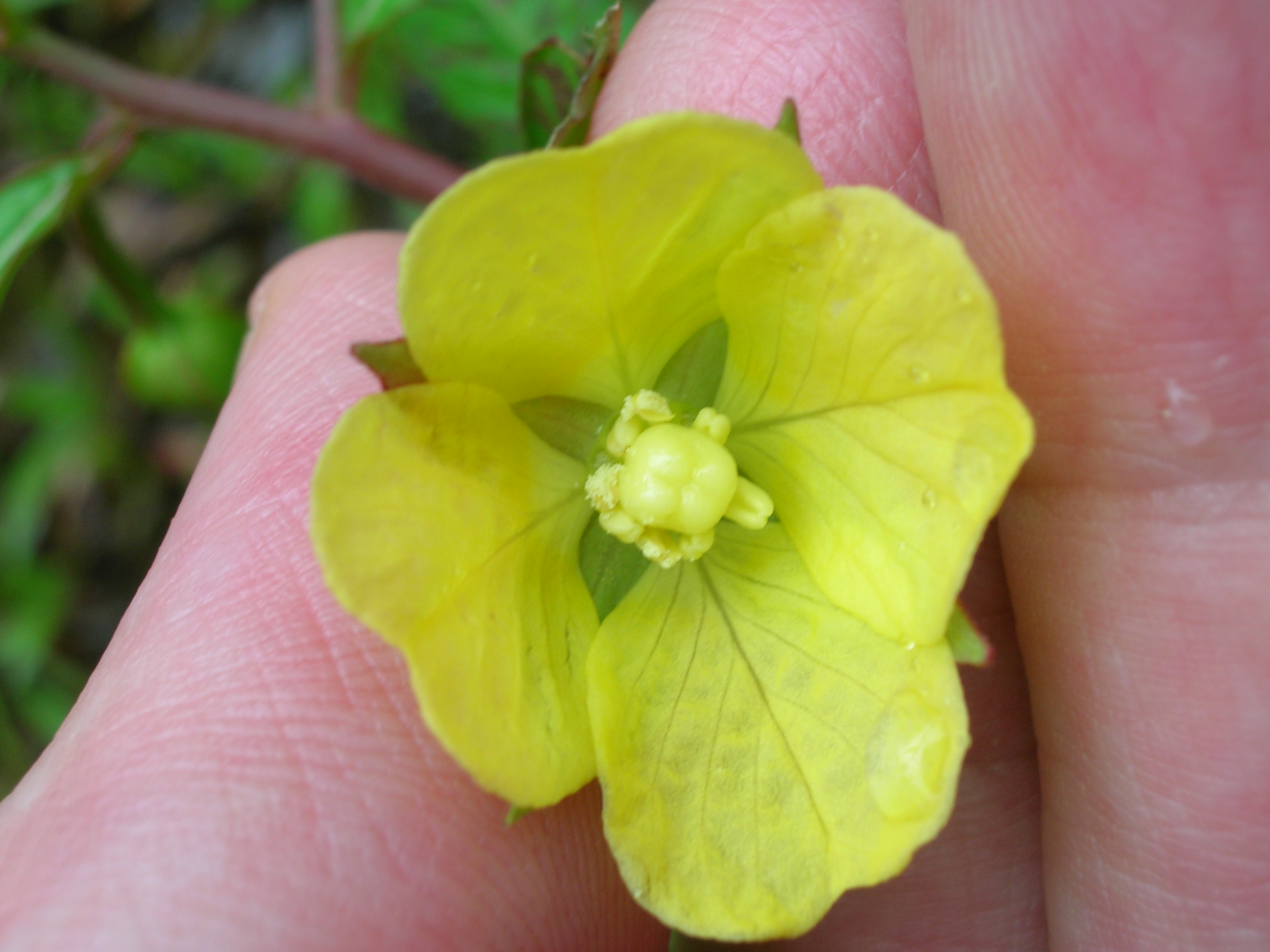 Ludwigia octovalvis (flower). Location: Maui, Hana Hwy Kuhiwa